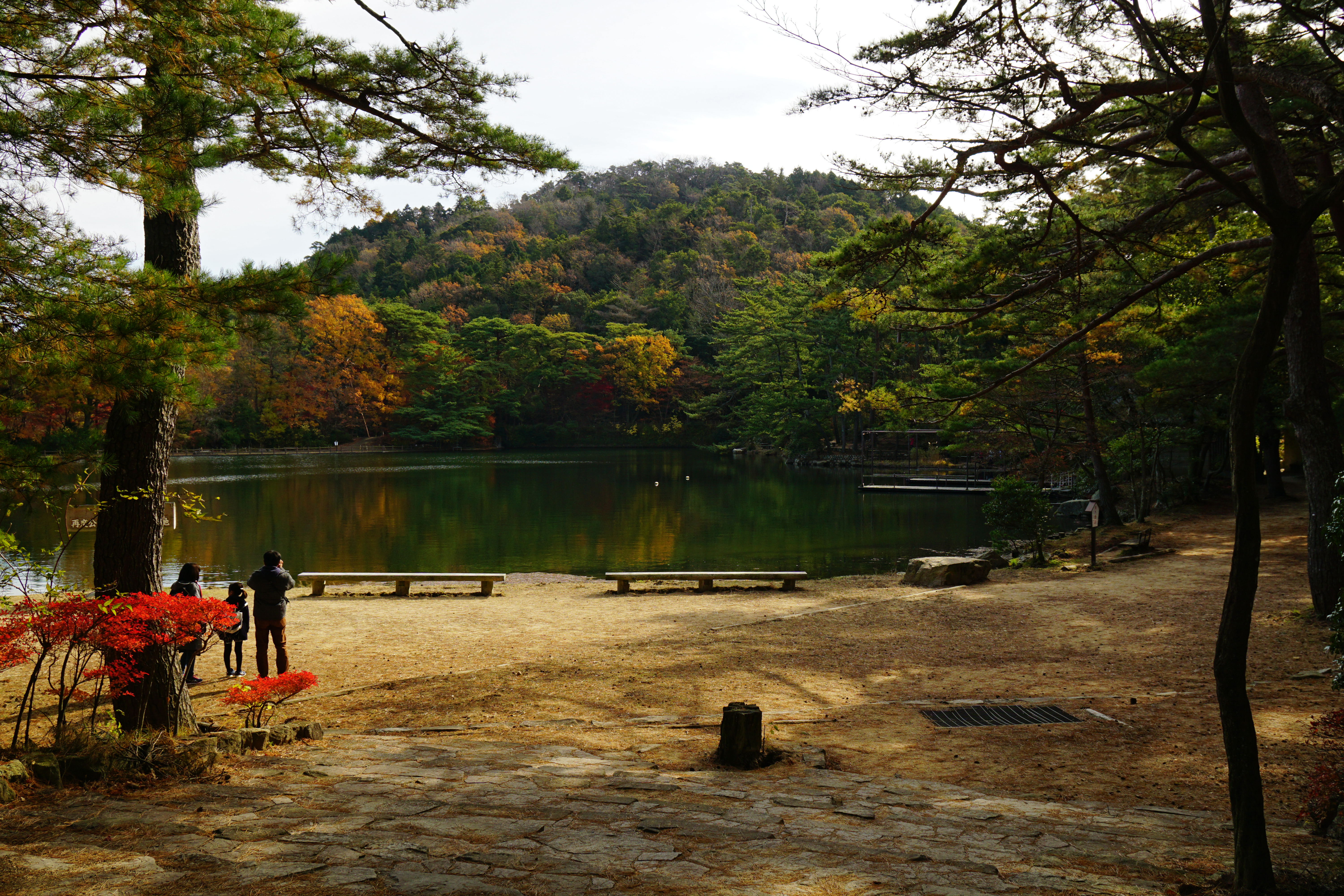 Futatabi Park in Kobe, Hyogo prefecture, Japan